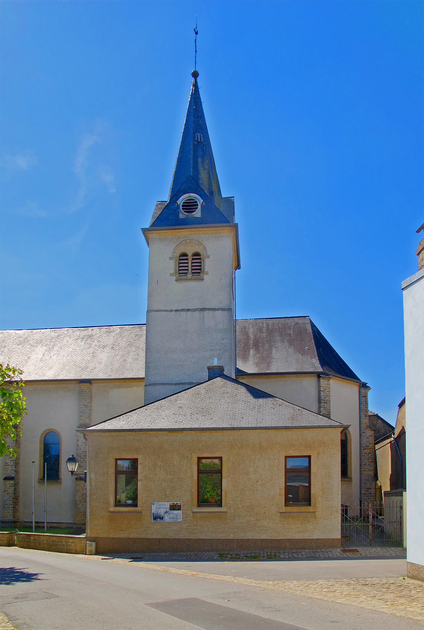 Church of Aspelt, Luxembourg